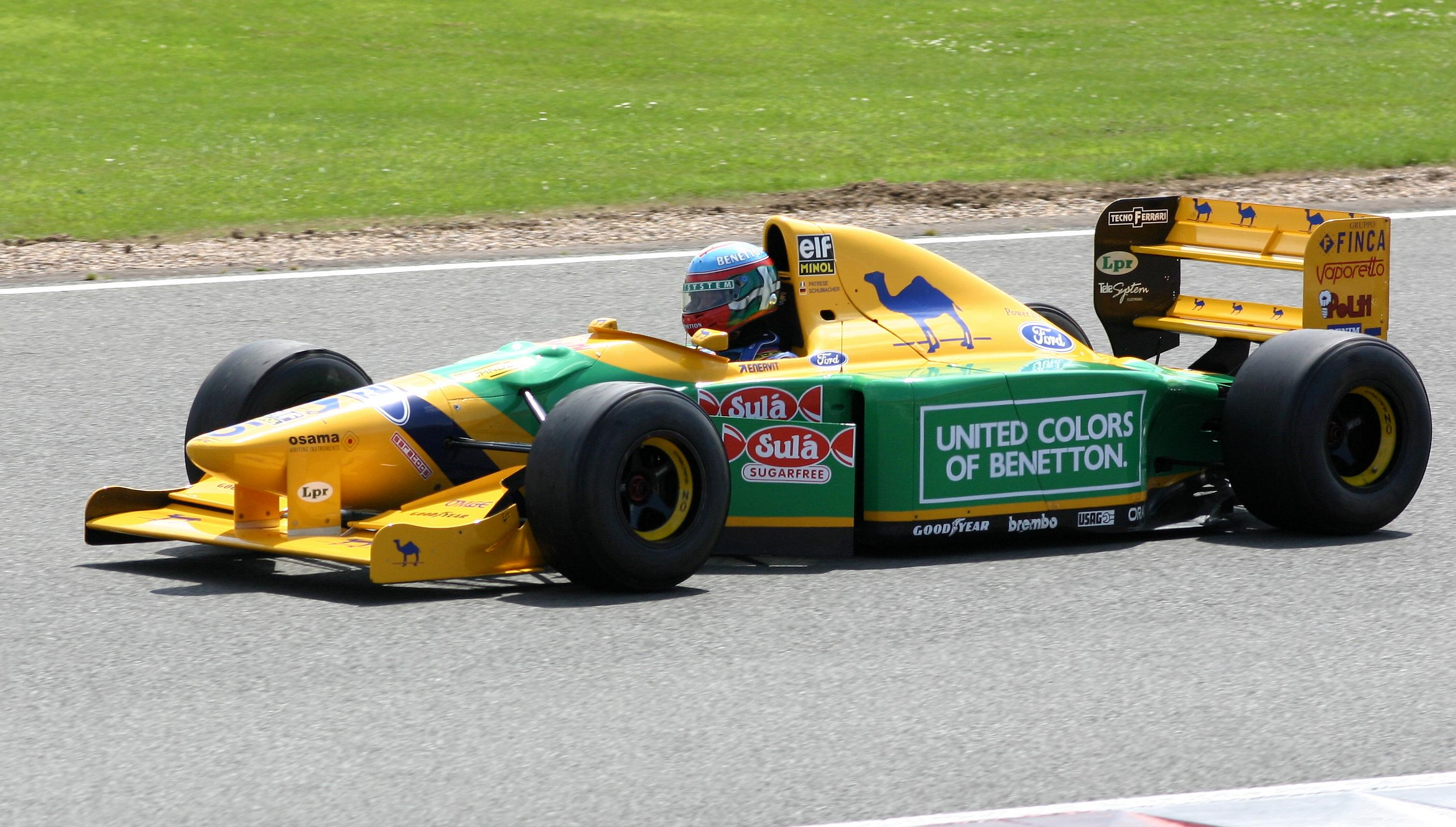 The Benetton B193 at the 2008 Silverstone Classic race meeting.